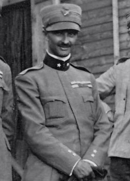 Fulco Ruffo di Calabria photographed by Attilio Prevost Sr. (1890-1954) during The First World War.